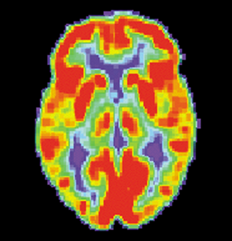 PET scan of a normal human brain